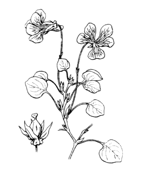 Viola nummulariifolia, an etching by Hippolyte Coste (1858-1924), Flore descriptive et illustrée de la France, de la Corse et des contrées limitrophes, published from 1900 to 1906 by Paul Klincksieck.